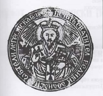 Fingerptint from the stamp of Lešok Monastery in Macedonia